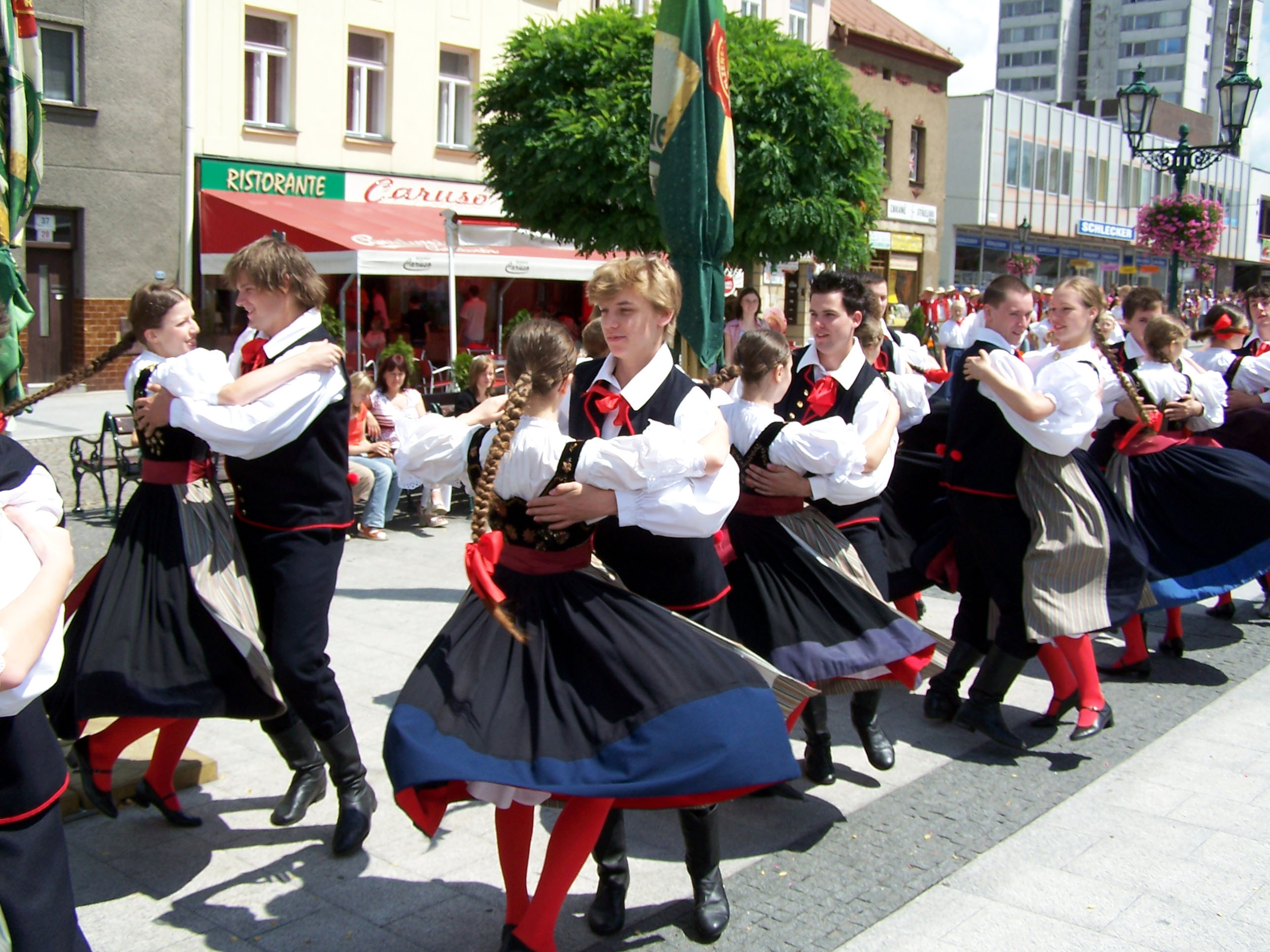 Błędowianie group from Błędowice during the parade at the beginning of the Jubileuszowy Festiwal PZKO 2007 in Karwina.